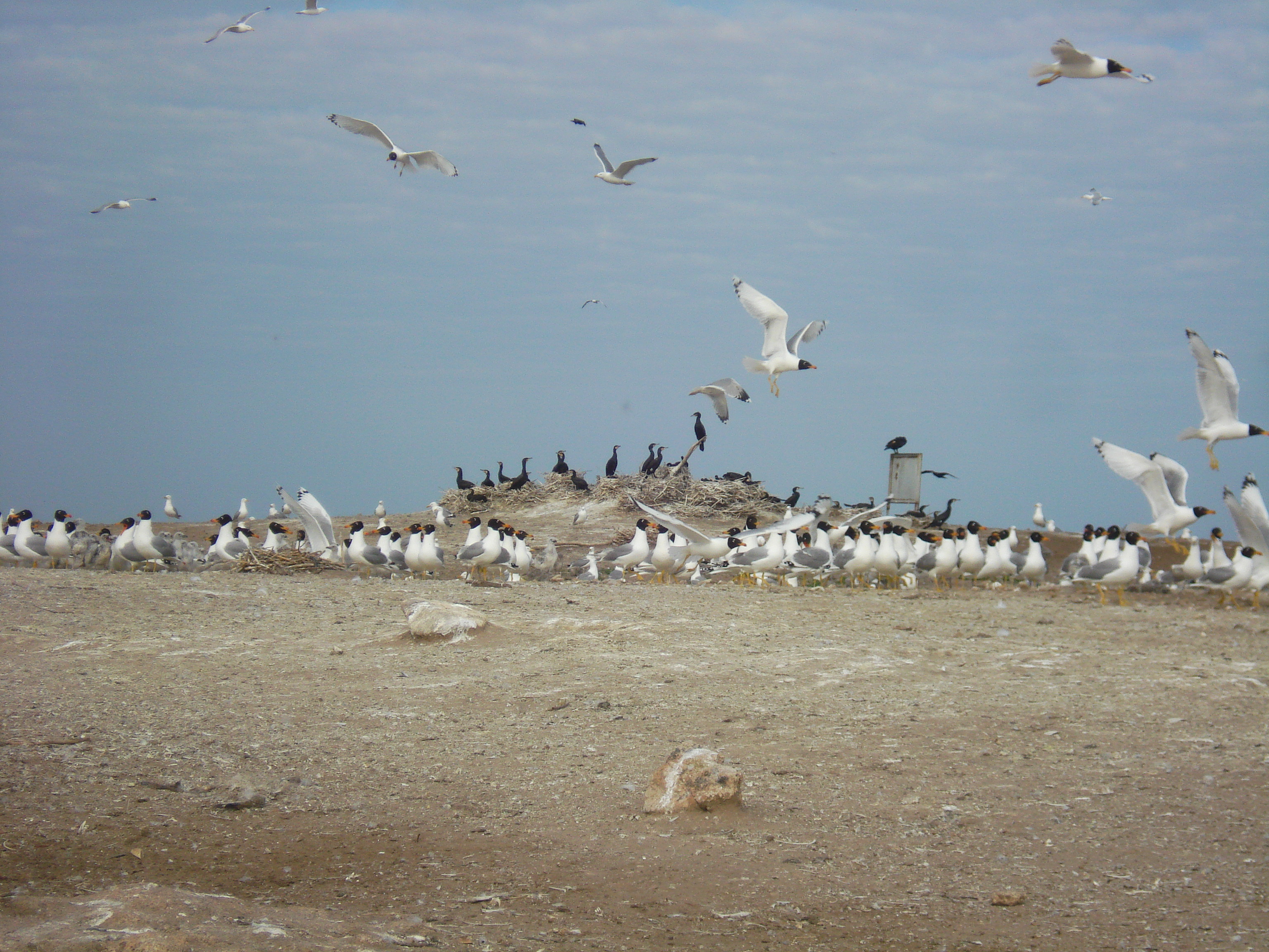 The local nature protected area "Ptashinyj bazar" (Svitlovodsk district, Kirovograd region, Ukraine)